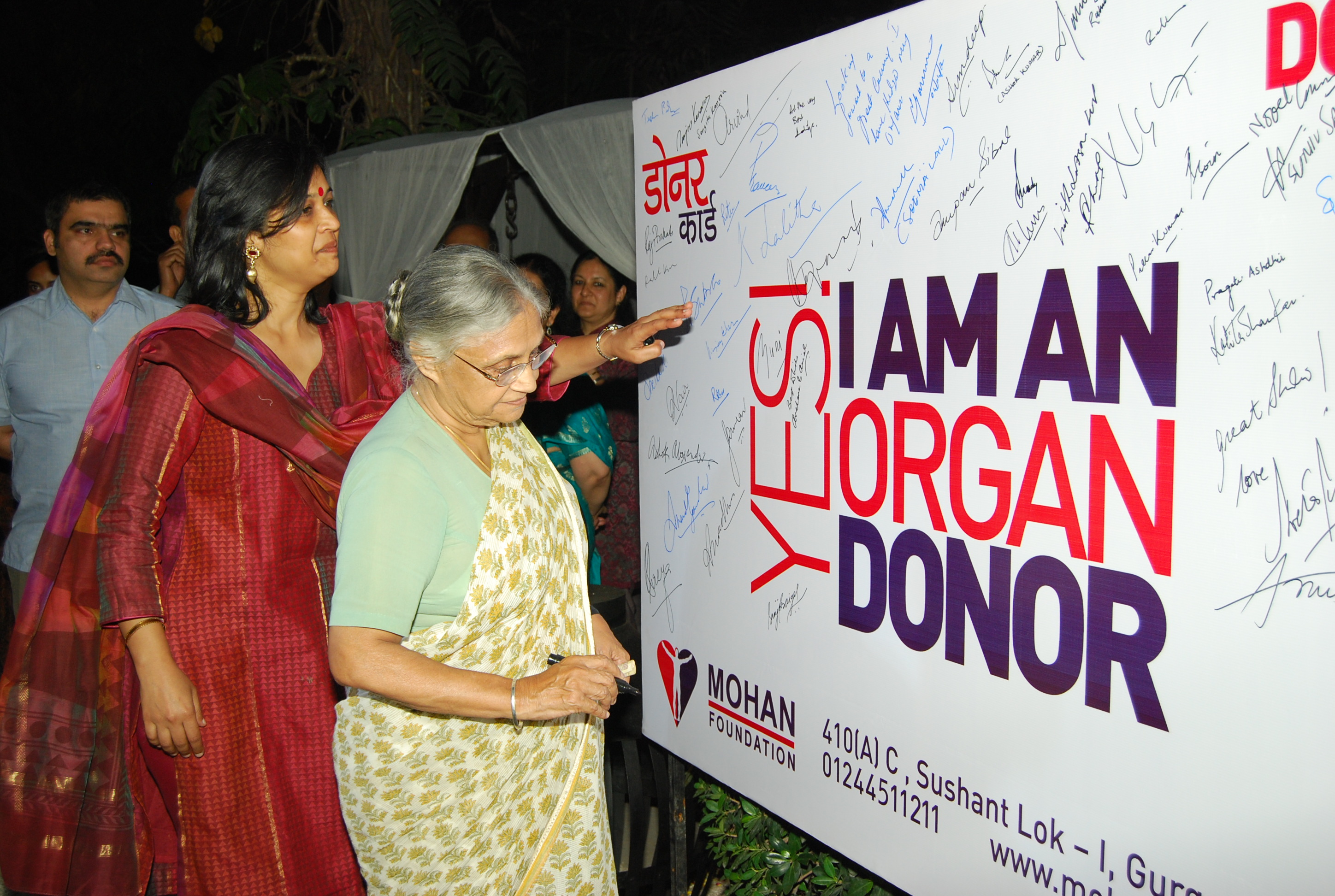 Sheila dixit signing organ donation card